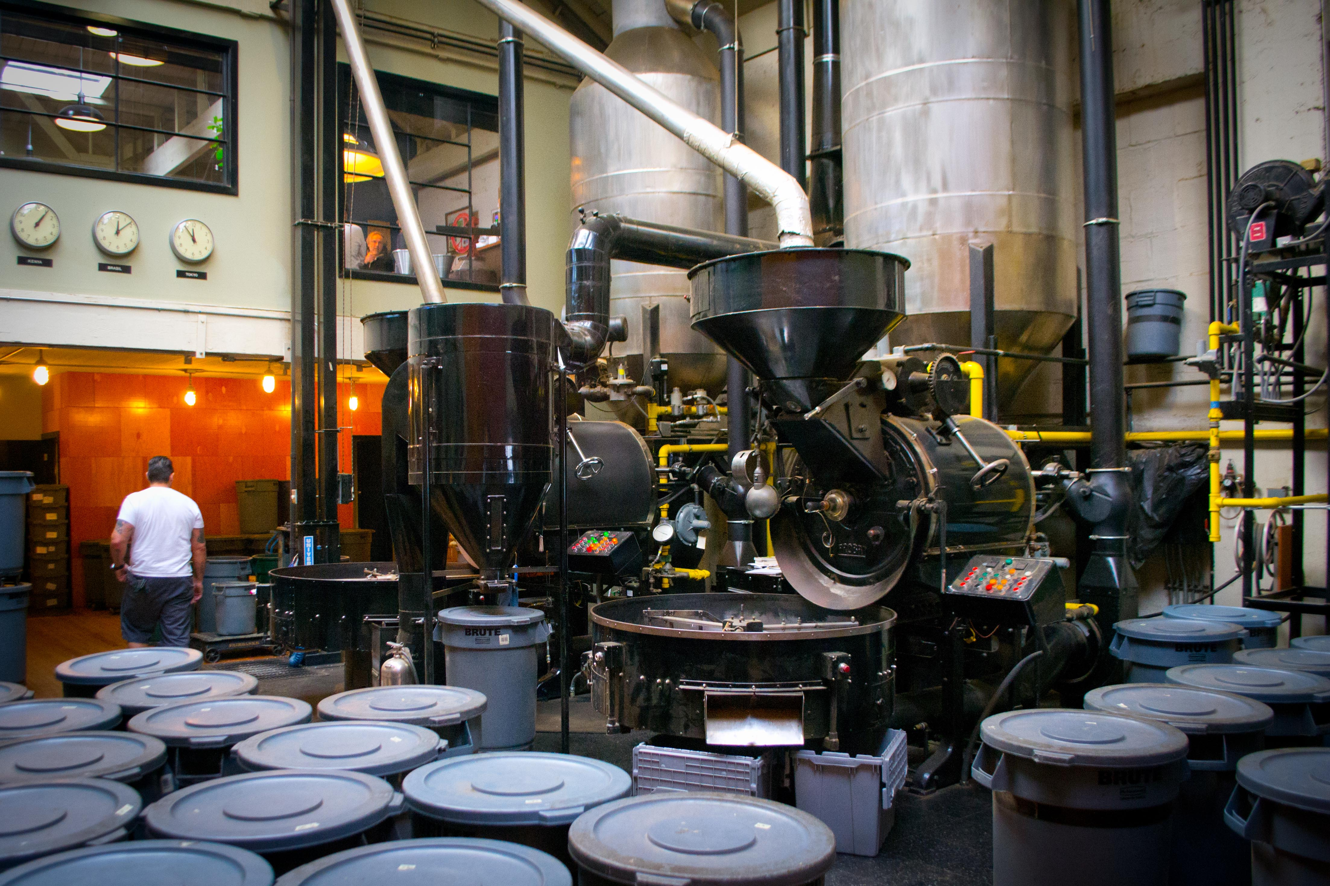 Probat roasters